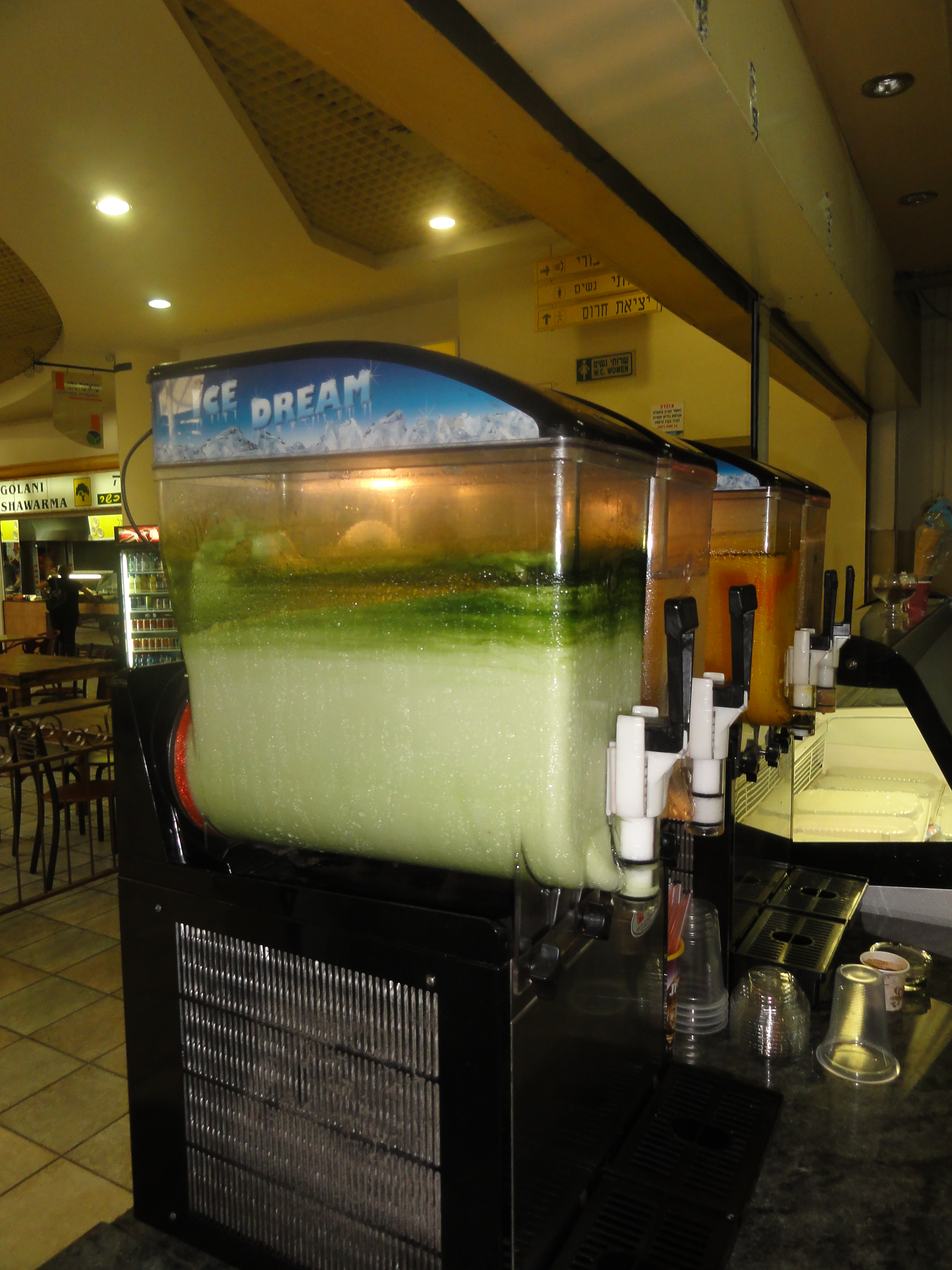 Slush drink machines in Hatzor HaGlilit, Israel Info GPS data may be inaccurate. EXIF data regarding date and time may be inaccurate.